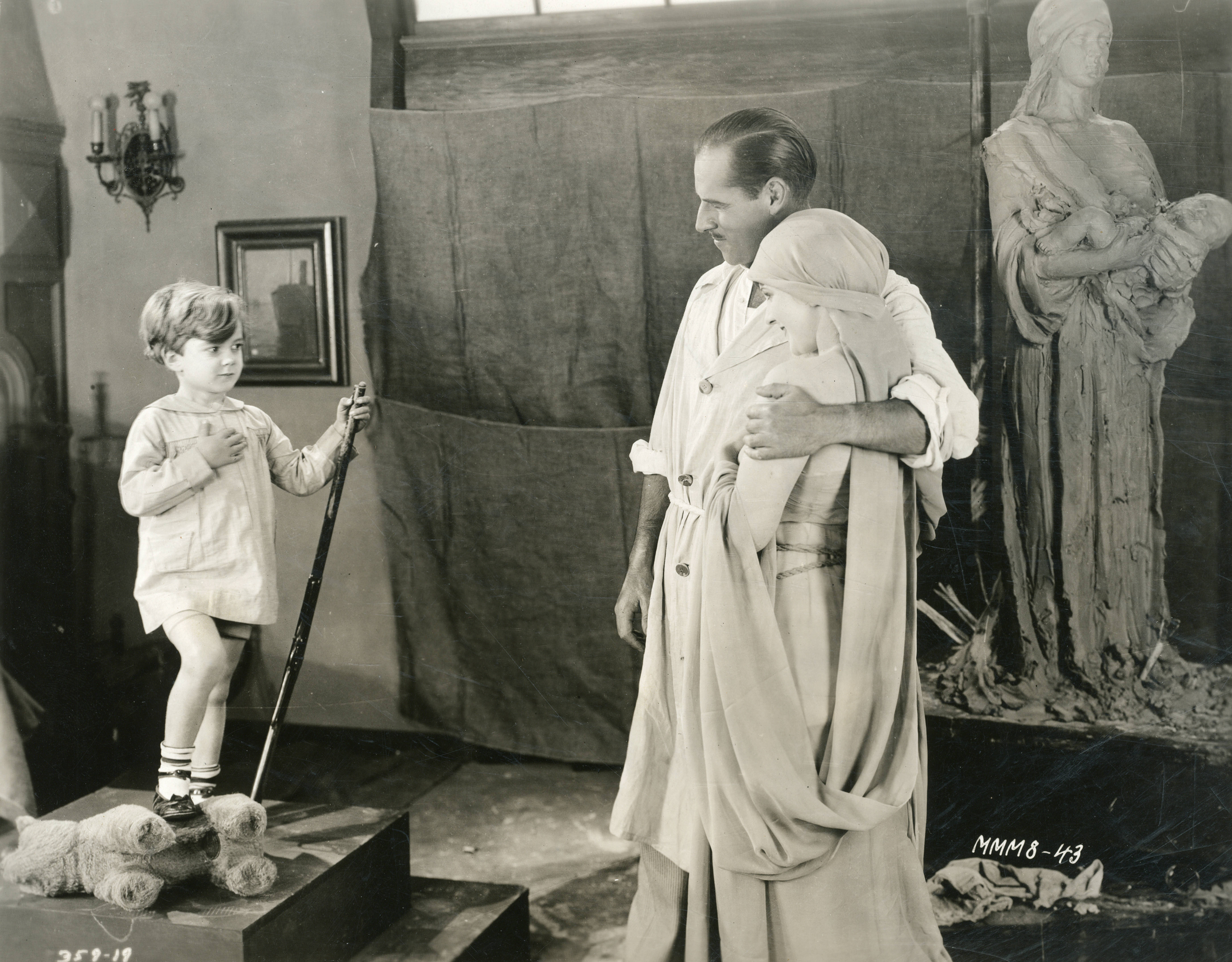 A scene from the American drama film All Soul's Eve (1921) with Mary Miles Minter and Jack Holt.